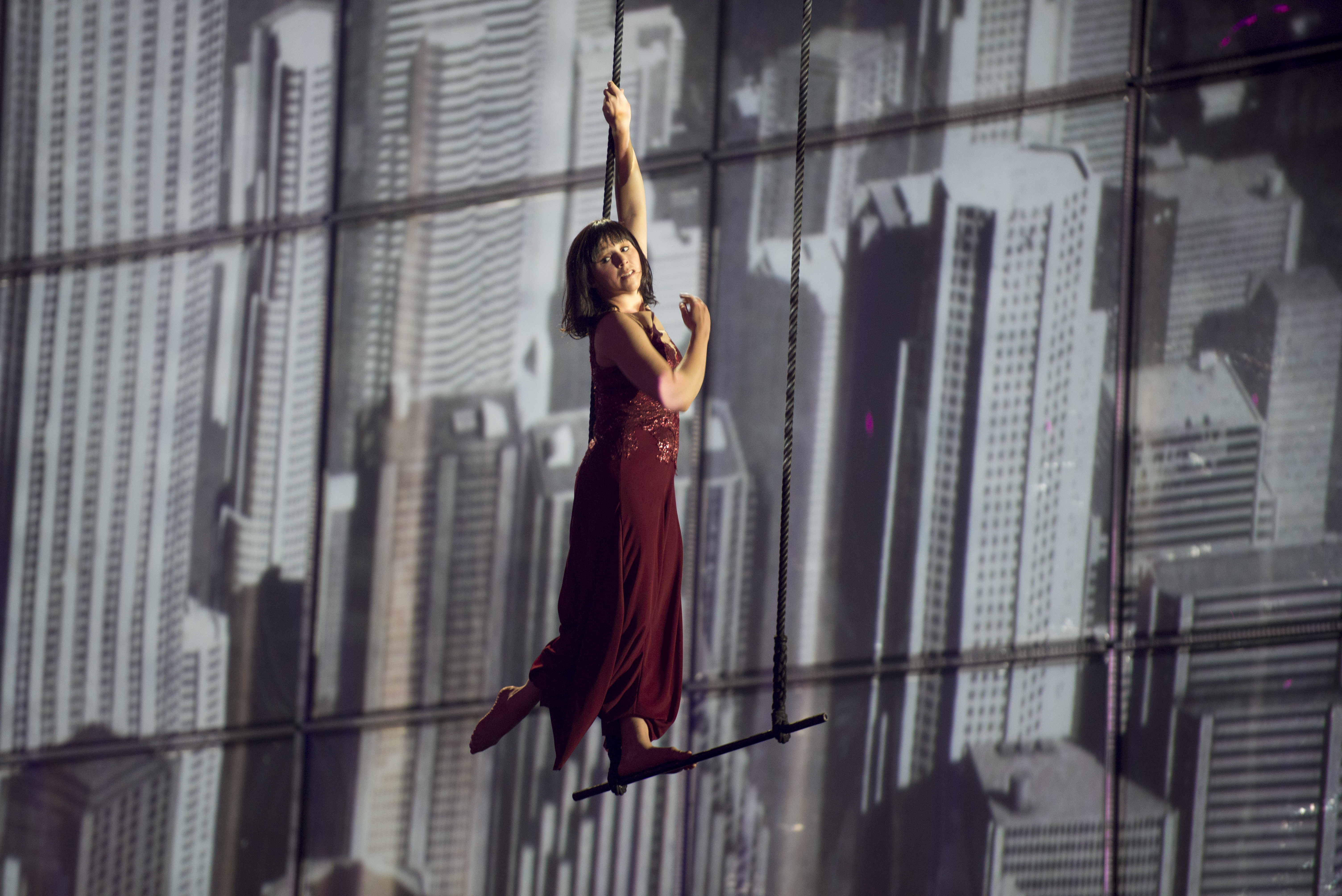 Dilara Kazimova representing Azerbaijan with the song "Start a Fire" during the first dress rehearsal of the first semi final of the Eurovision Song Contest 2014 Copenhagen. (Help translate this text)